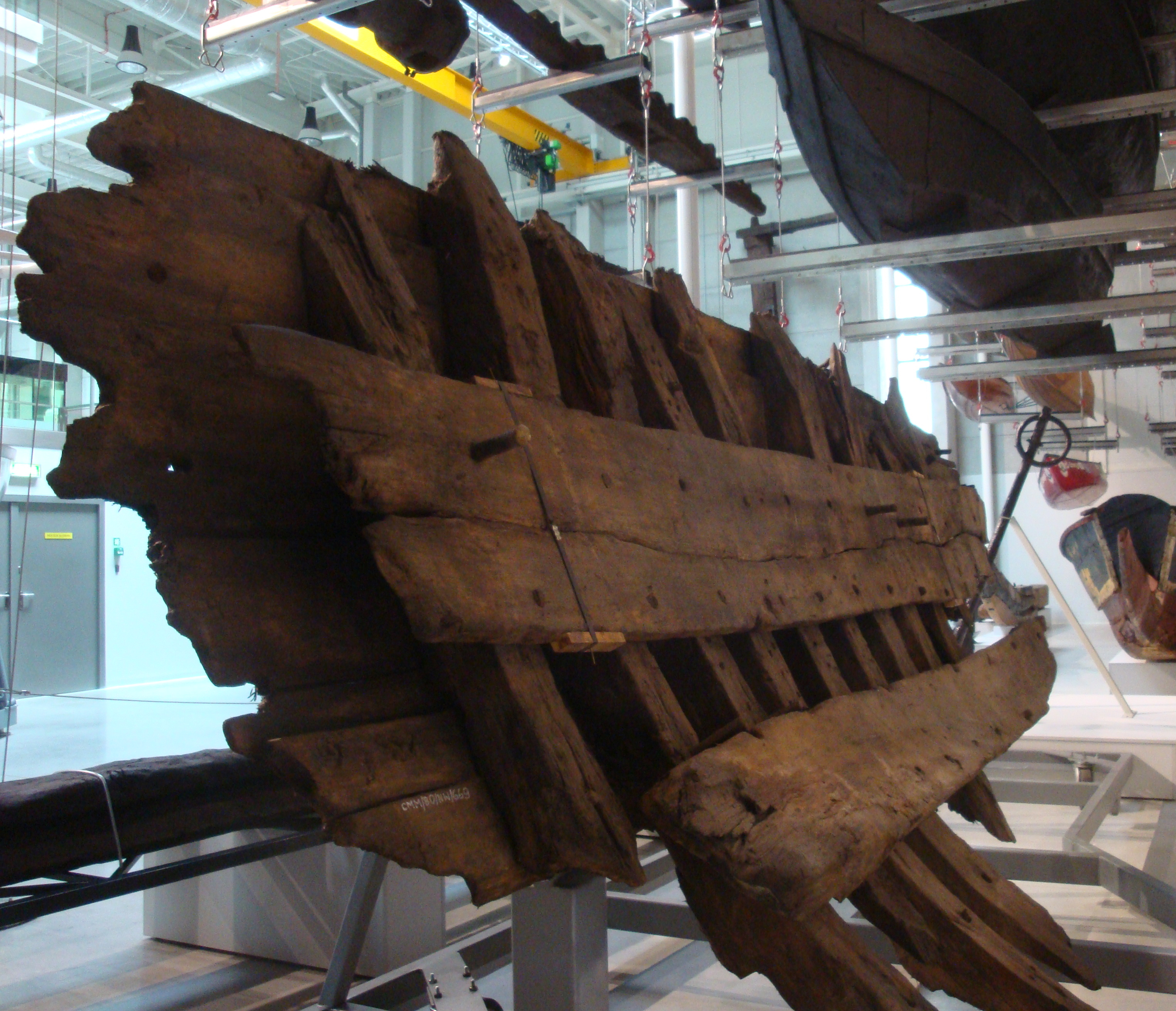 Inner part of side of Miedziowiec on exhibition in Centrum Konserwacji Wraków Staków (Shipwreck Conservation Centre) in Tczew, Poland. "Miedziowiec" (The Copper Ship) - wreck of medieval ship, which sunk in 1408. Discovered in 1969, delivered many valuable artefacts.